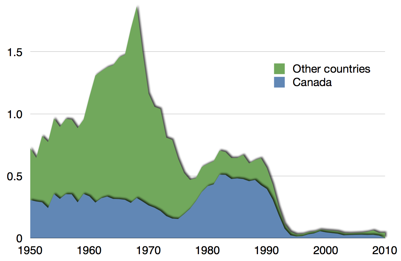 Time series for the collapse of the Atlantic northwest cod stock, capture in million tonnes with Canadian data presented separately. Based on data sourced from the FishStat database FAO.